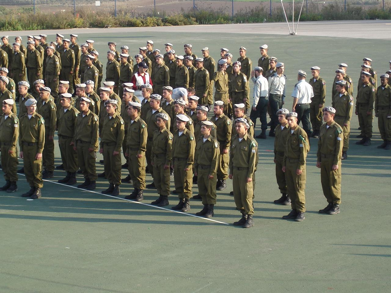 טקס הענקת כומתה הנדסה קרבית Ceremony of Silver berets awarding to the Israel Engineering Corps soldiers